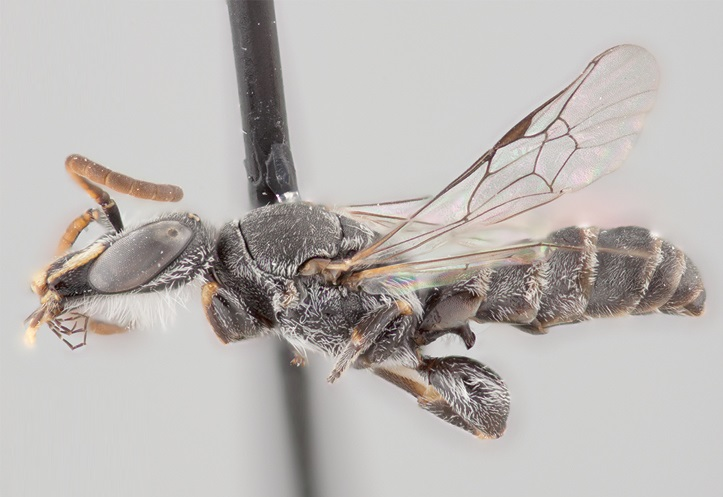 Male of Chilicola charizard